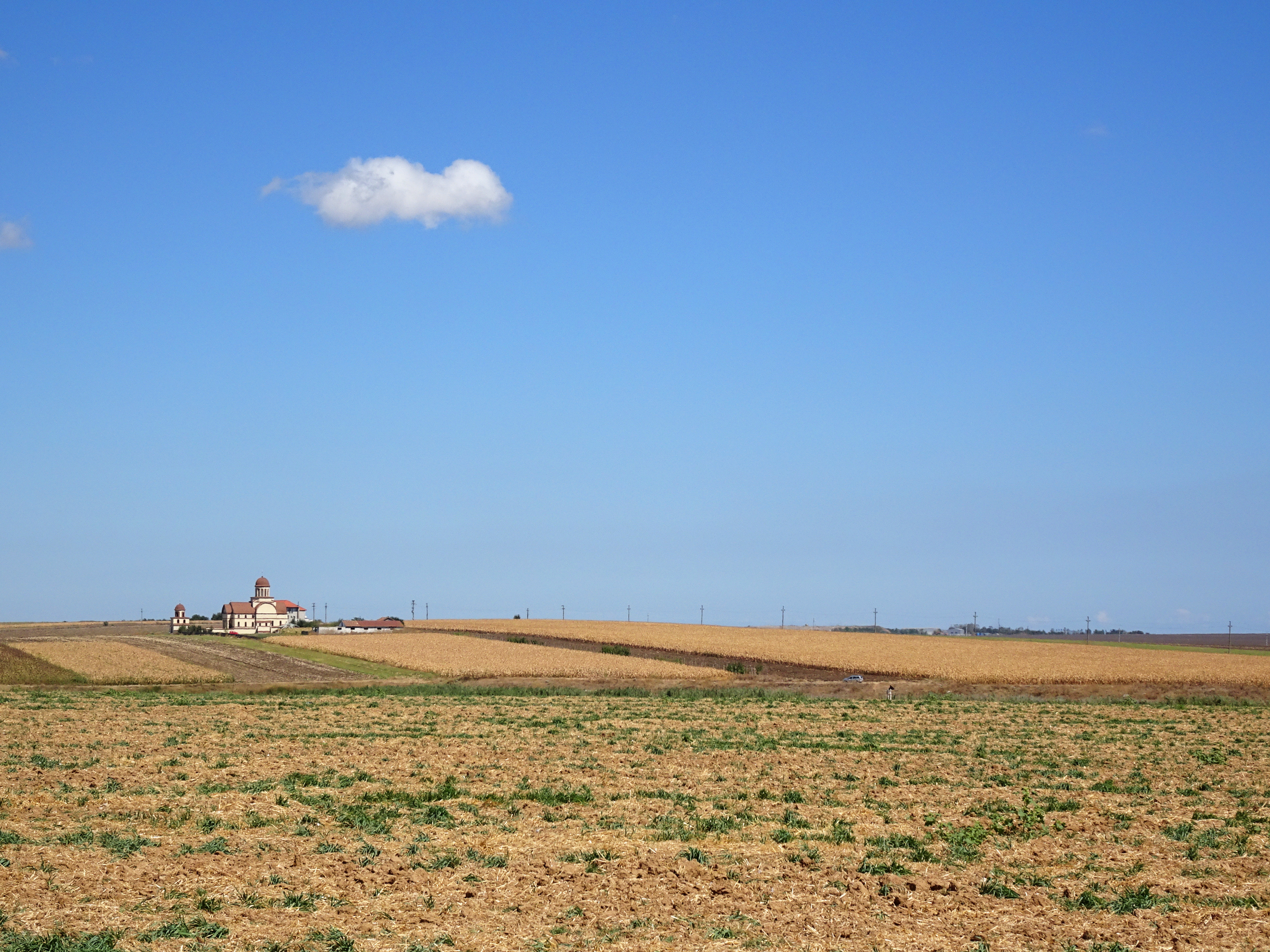 A 21st century monastery dedicated to St. Nicholas and Bretanion, raised on a low hill between lake Tatlageac and the sea.